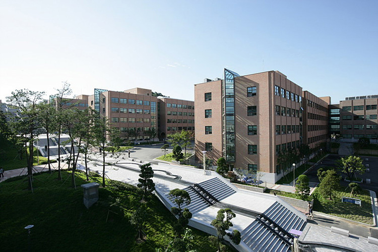 Dankook University, Engineering Bldg view (Jukjeon)